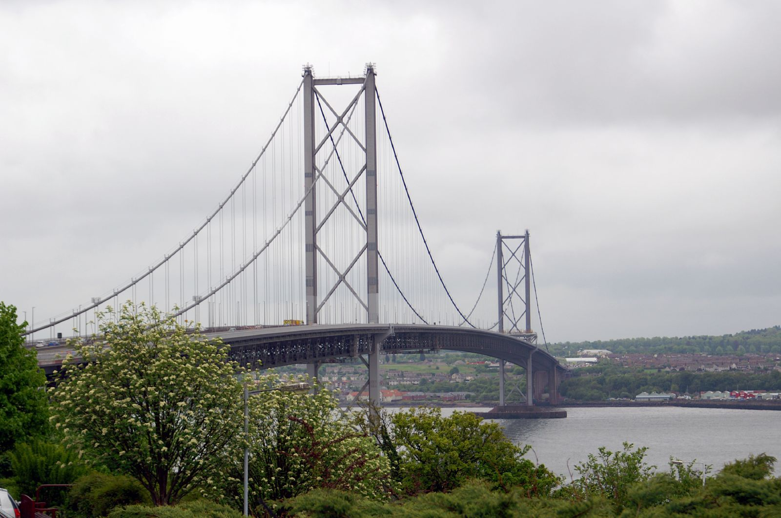 Forth Road Bridge